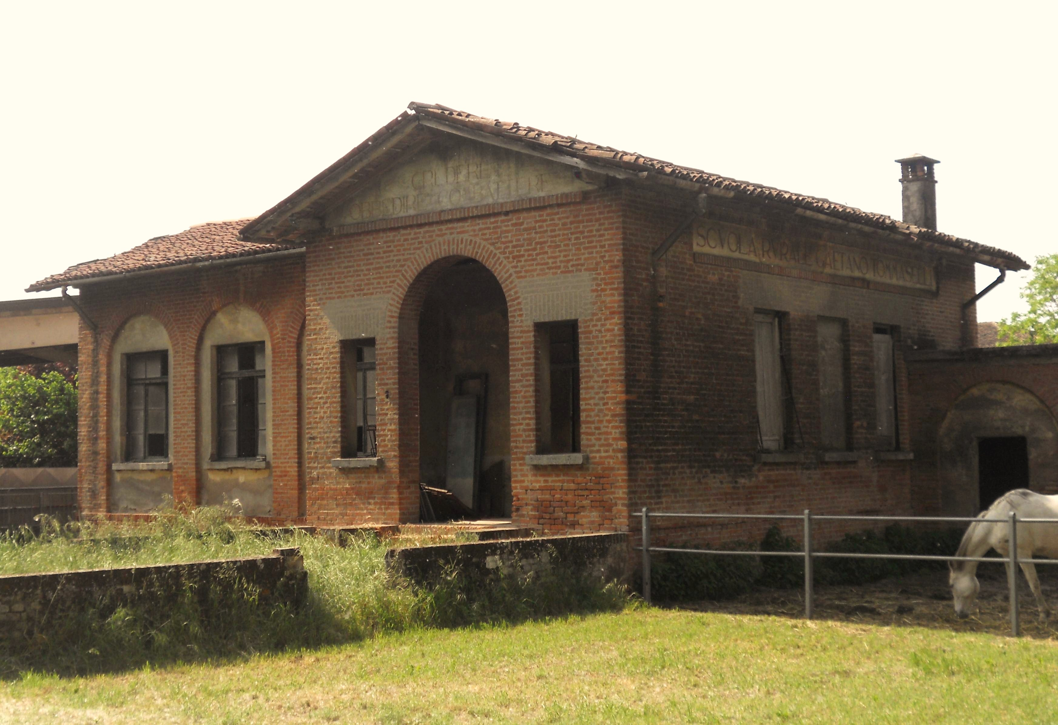 Ex-Italian rural school of the fascist era in the countryside near Castelleone, in Italy. On the front and on the side of the building is written "CREDERE OBBEDIRE COMBATTERE" and "SCVOLA RVRALE GAETANO TOMMASELLI", that literally means "Believe, obey, fight" (a fascist slogan) and "Rural school Gaetano Tommaselli"